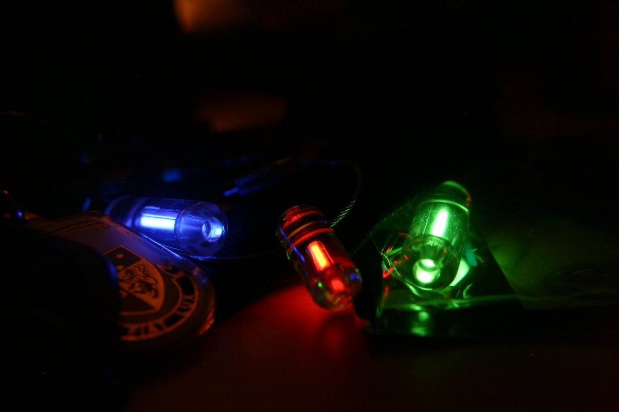 Three "traser" glowing keychain attachments. Blue, orange and green. Roughly ten minute exposure with Canon EOS 300D.